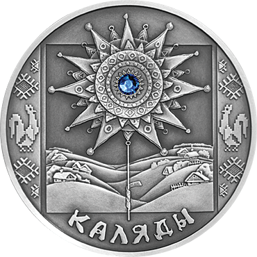 "Kaljady", Silver commemorative coins, denomination: 20 rubles